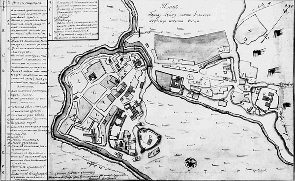 Map of Lutsk 1795